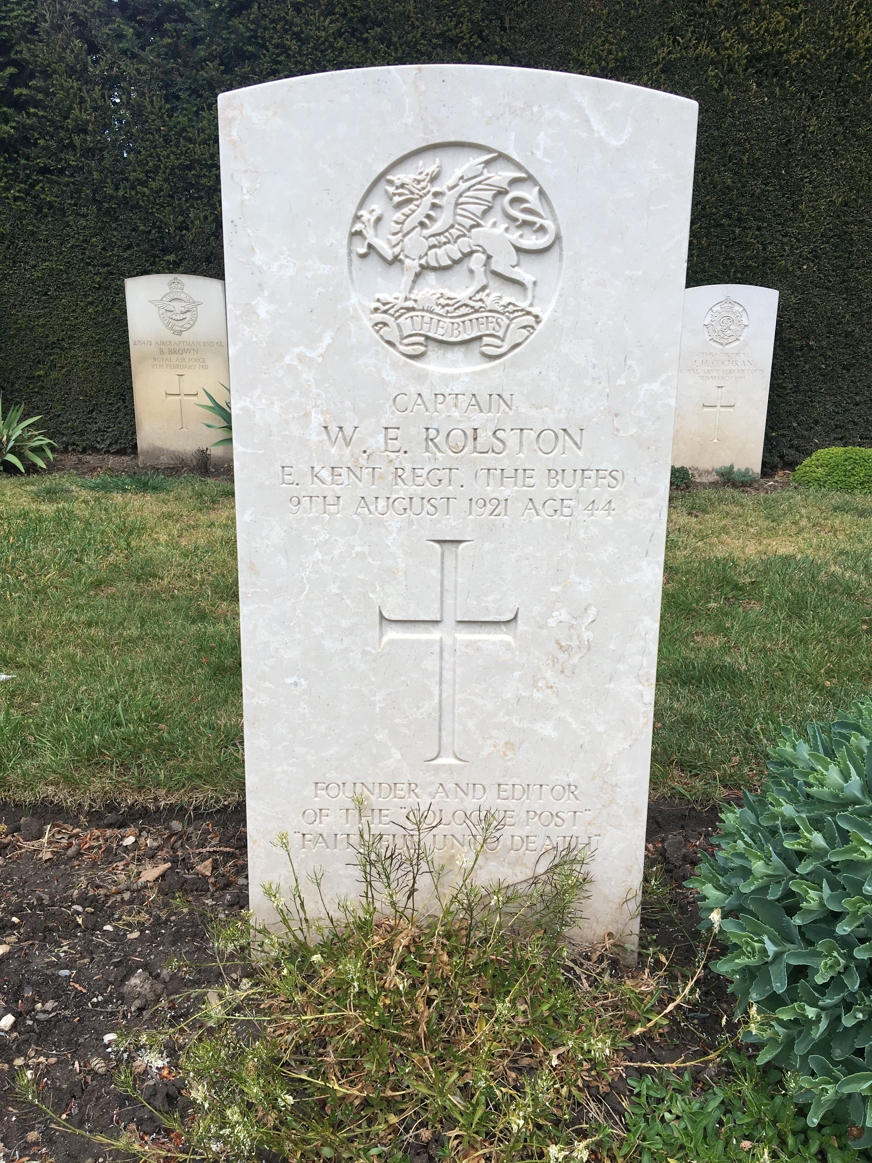 William Edward Rolston on COLOGNE SOUTHERN CEMETERY